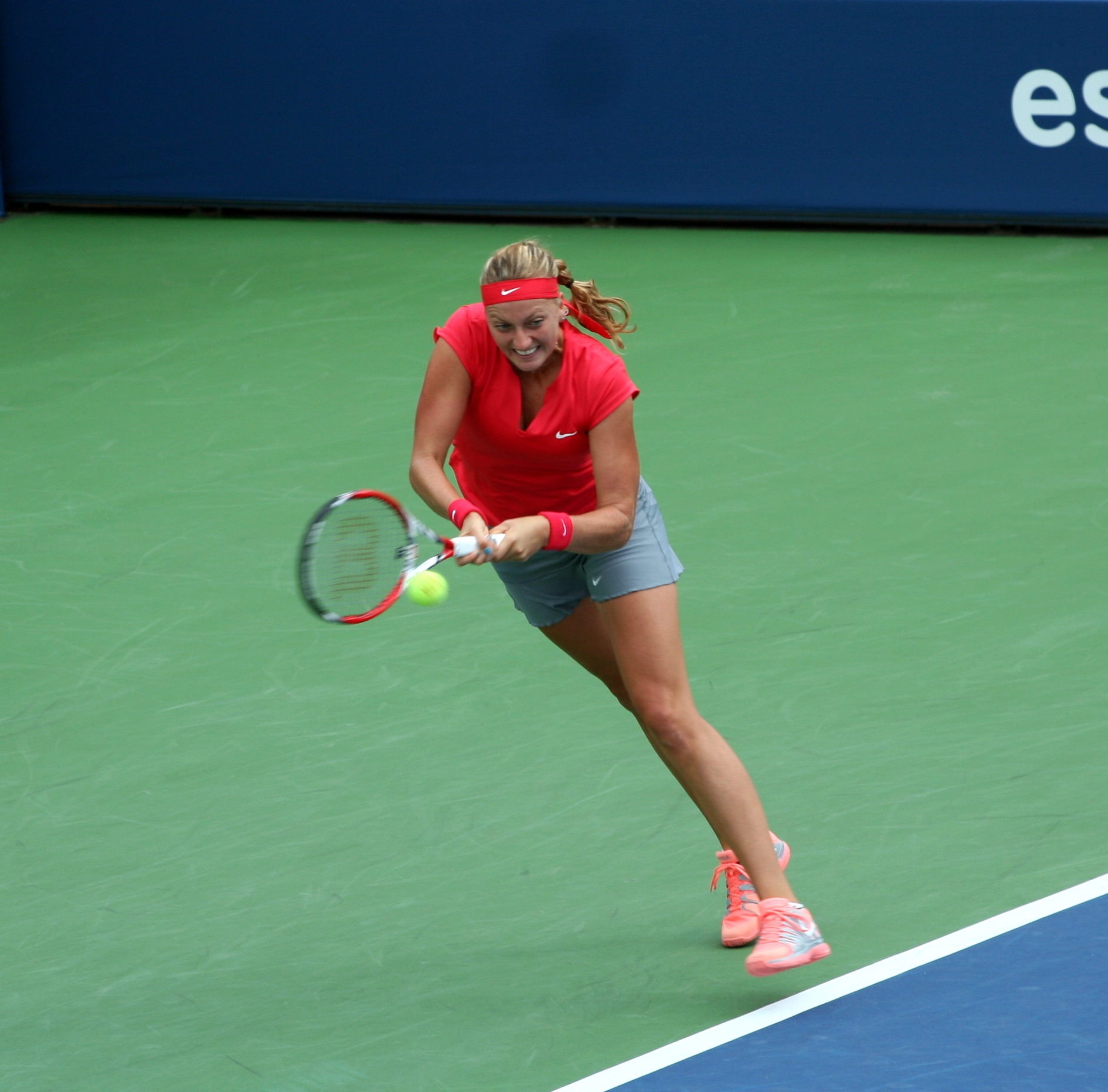 Saturday, August 31, 2013